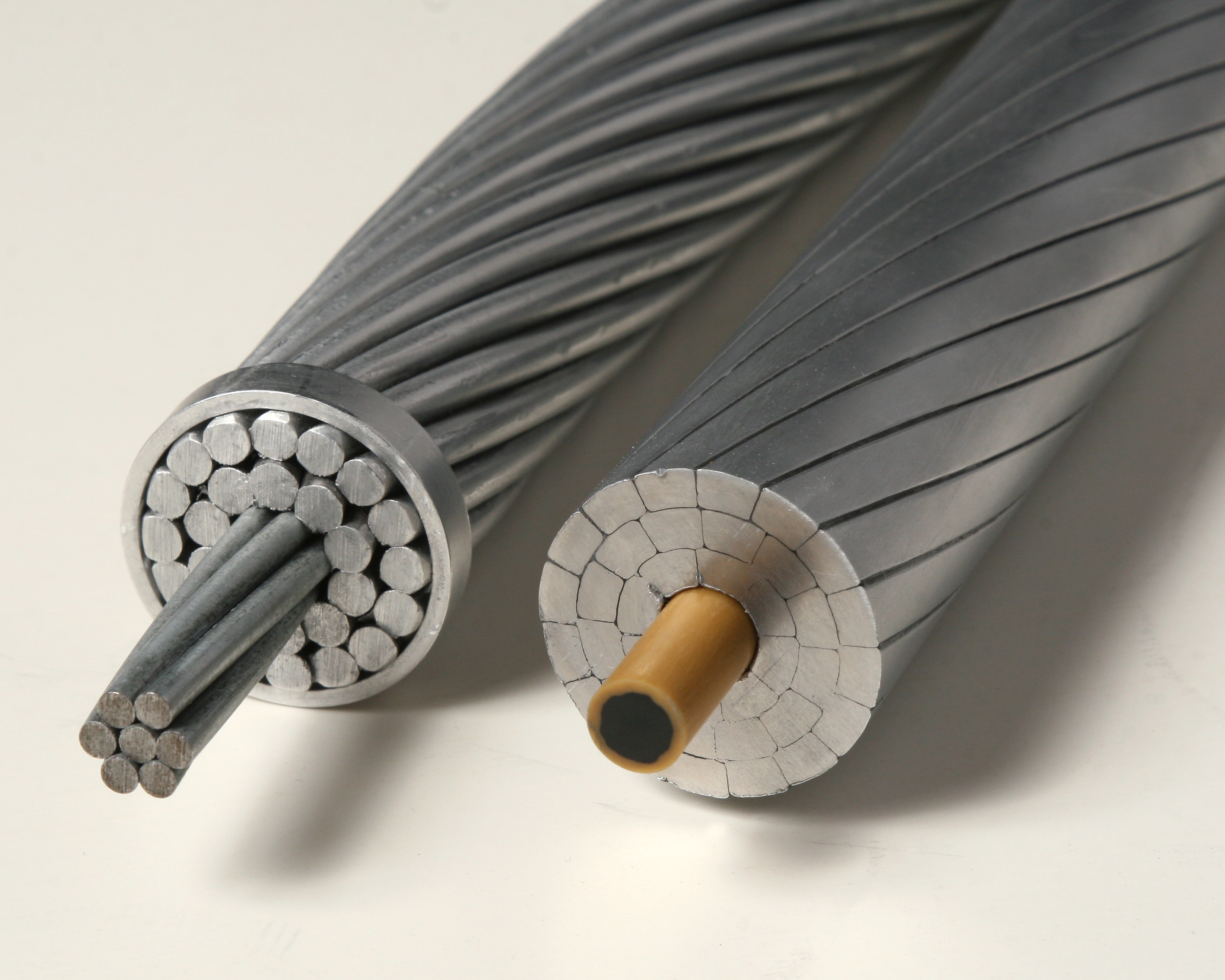 Overhead power line conductor comparison: a conventional steel-reinforced round-wire ACSR conductor (left) and a high-capacity, low sag ACCC conductor with light-weight composite core and compact trapezoidal aluminum strands (right)